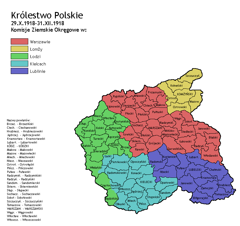 Map of the Kingdom of Poland in 1918, divided into counties and Land Okręg Commissions.